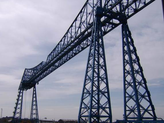 Transporter Bridge This Bridge was featured in Auf Wiedersehen Pet